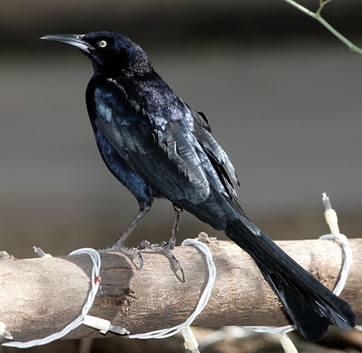 Great-tailed Grackle, Quiscalus mexicanus, male. Location: Phoenix, Maricopa County, Arizona, United States.